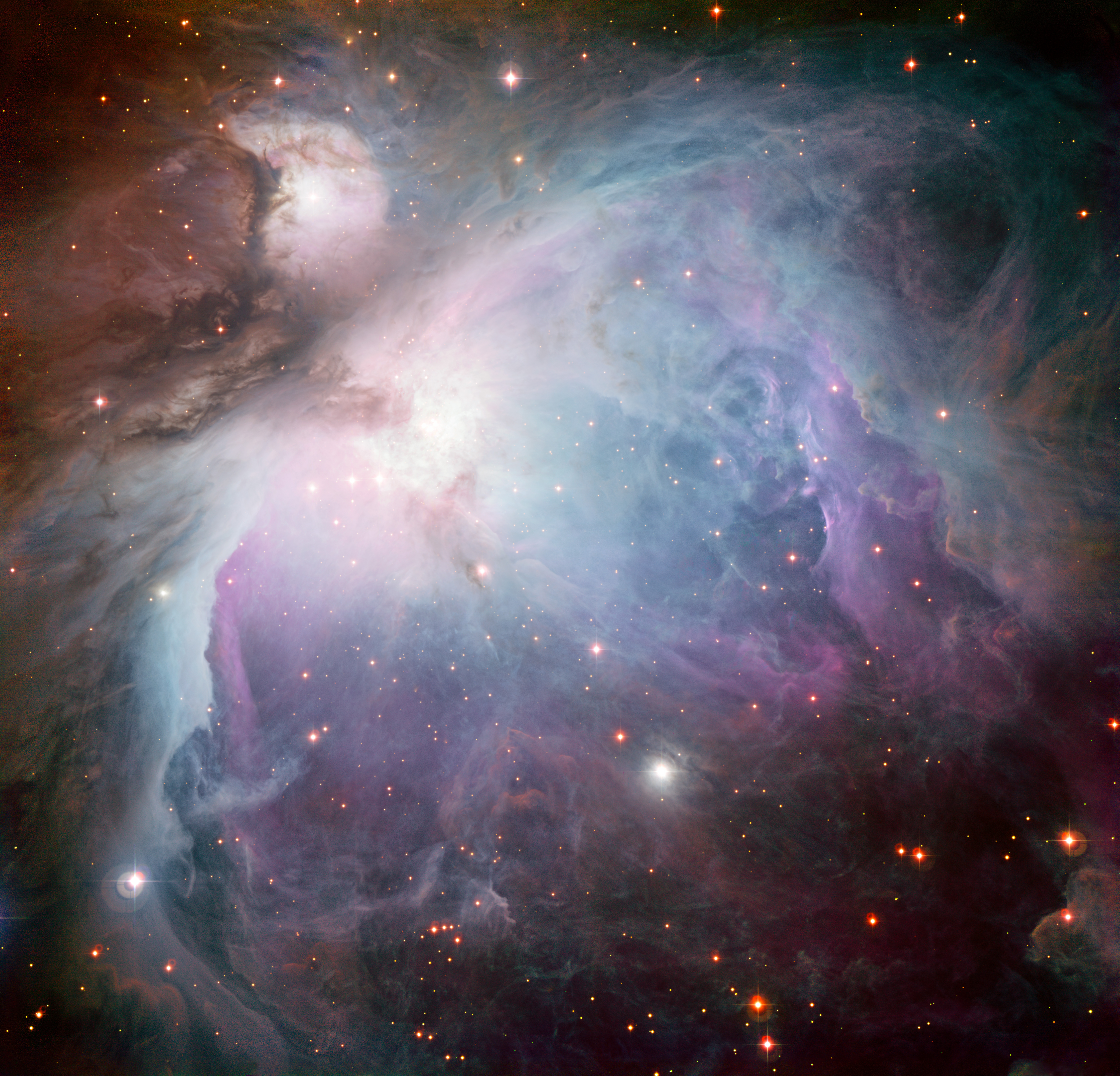 This new image of the Orion Nebula was captured using the Wide Field Imager camera on the MPG/ESO 2.2-metre telescope at the La Silla Observatory, Chile. This image is a composite of several exposures taken through a total of five different filters. Light that passed through a red filter, as well as light from a filter that shows the glowing hydrogen gas, is coloured red. Light in the yellow–green part of the spectrum is coloured green, blue light is coloured blue and light that passed through an ultraviolet filter has been coloured purple. The exposure times were about 52 minutes through each filter.